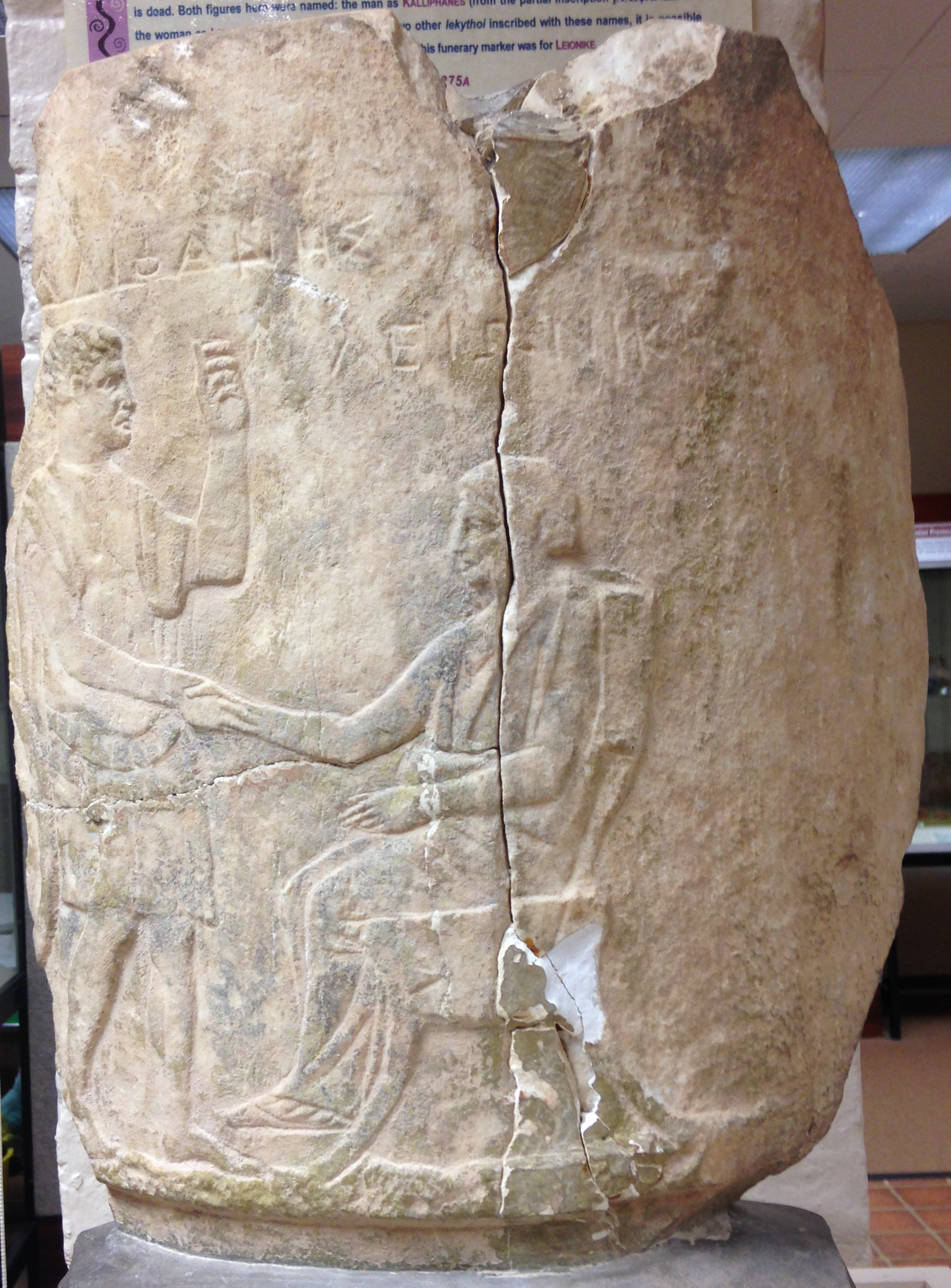 Fragmentary marble funerary lekythos (grave-marker) from Attica, Greece. 4th century BC, Late Classical Period. Please cite as MCA Inv. 677 @ The Museum of Classical Archaeology, The University of Adelaide.